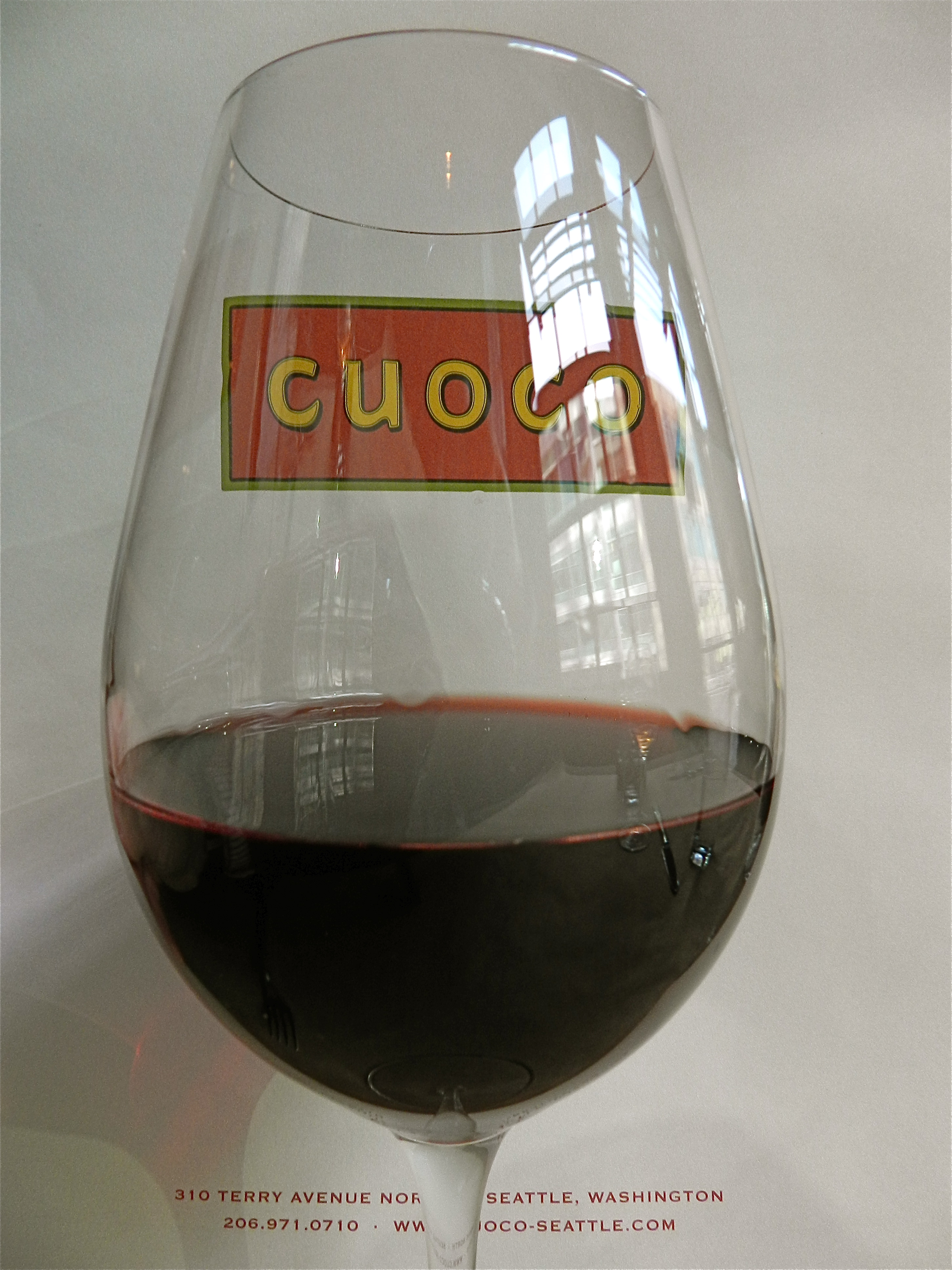 A class of the Italian grape variety barbera